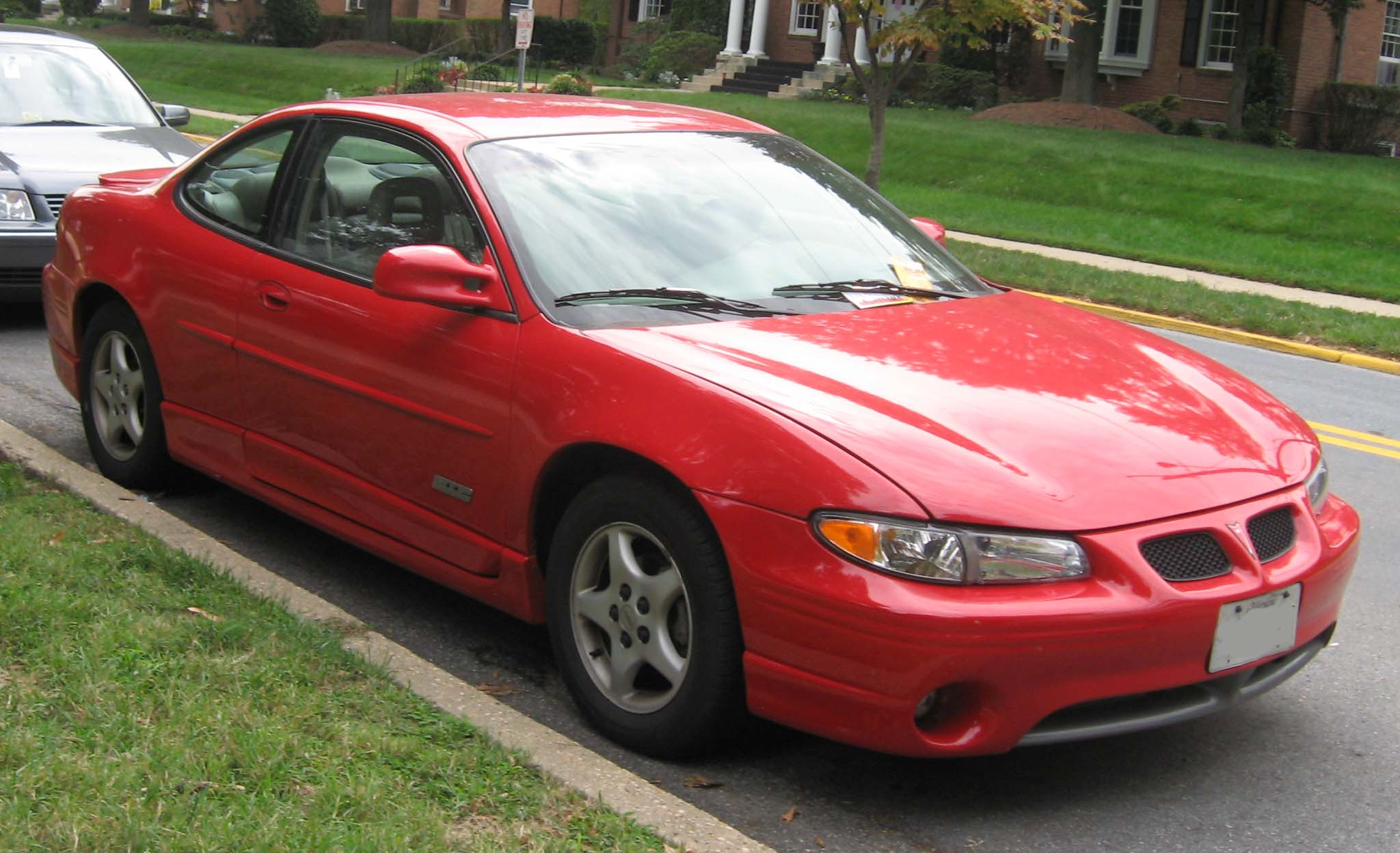 1997-2003 Pontiac Grand Prix photographed in College Park, Maryland, USA.